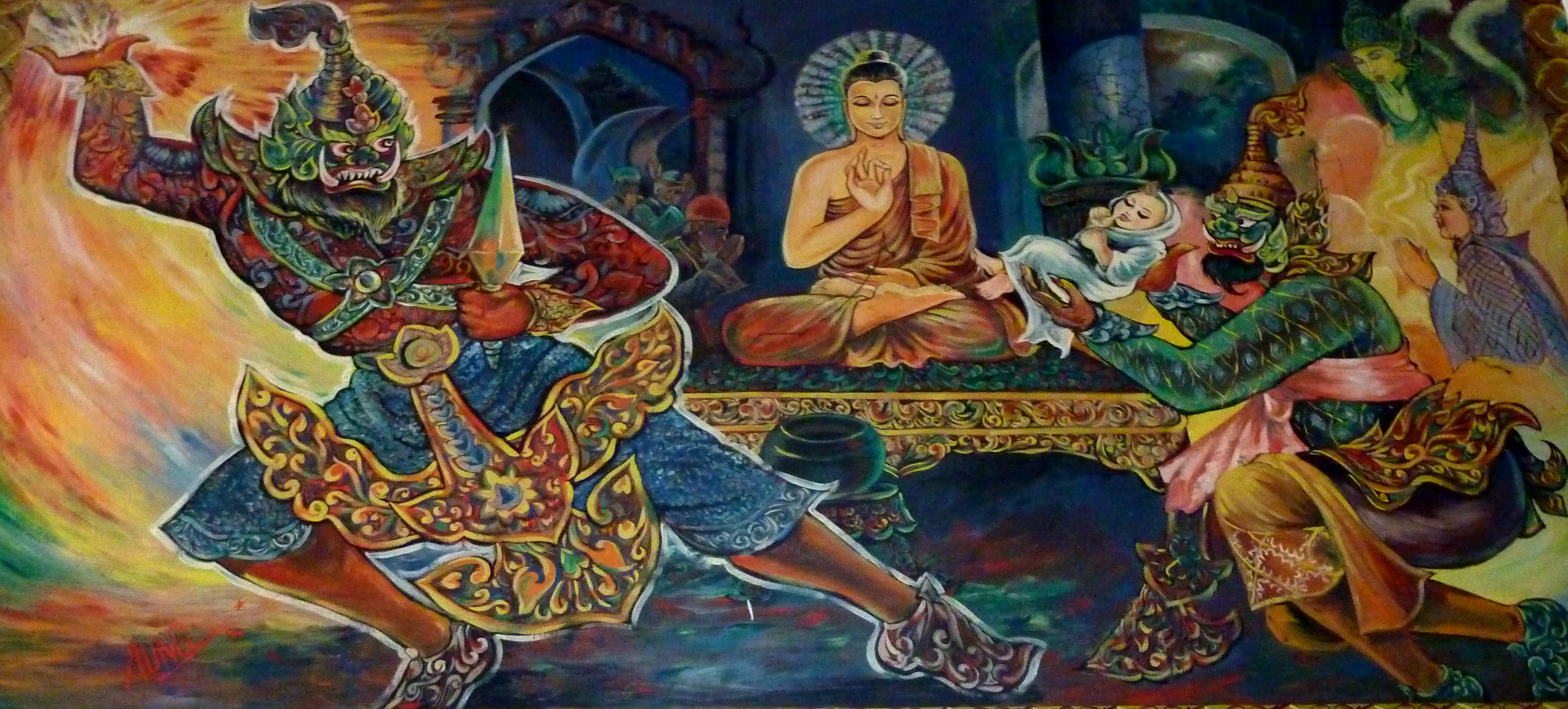 071 The Defeat of Alavaka, at Wat Olak Madu, Kedah